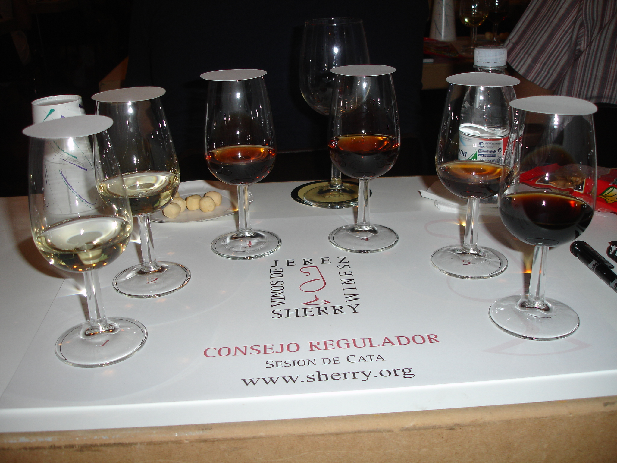 Sherry